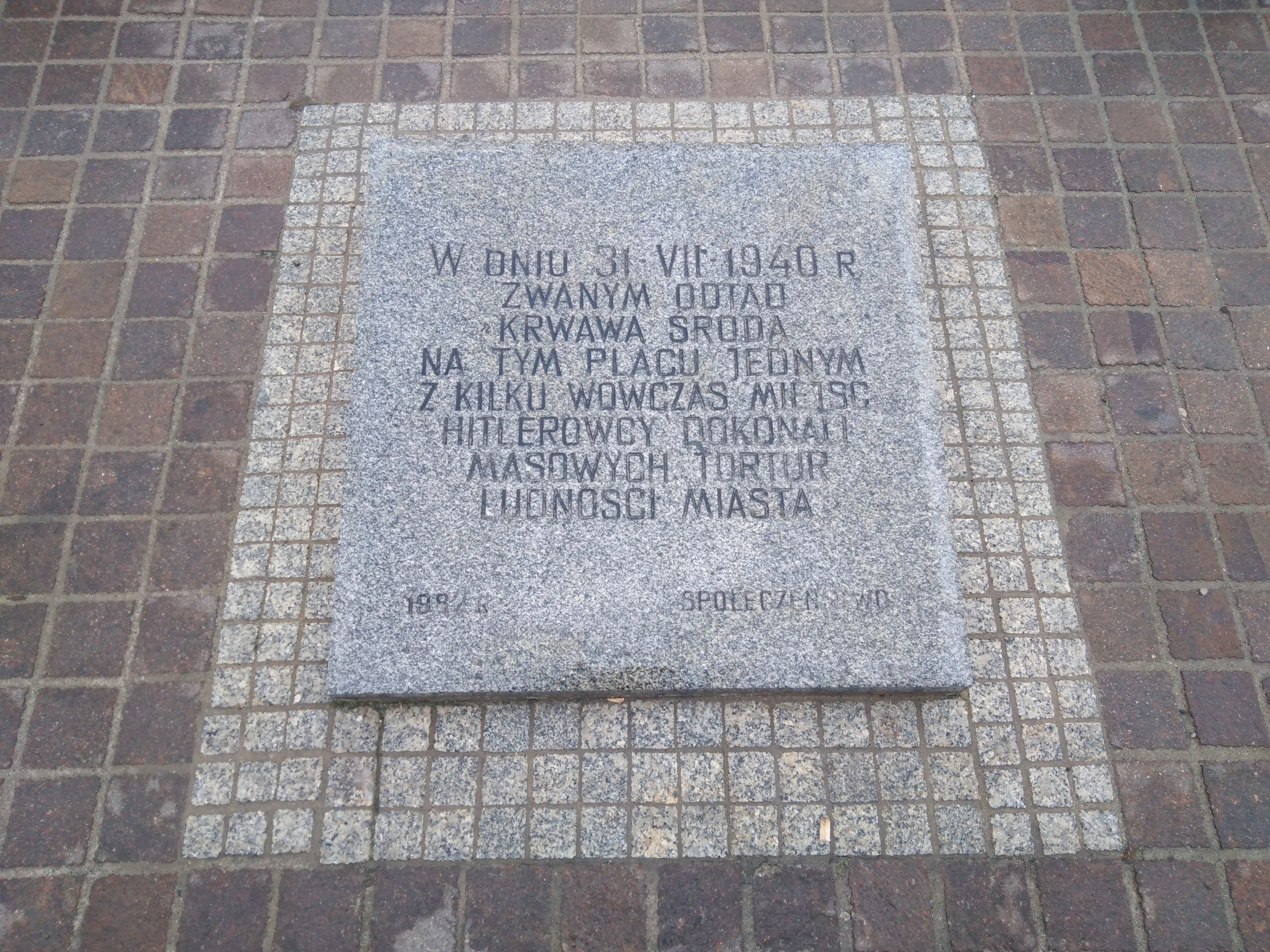 Plaque commemorating Poles and Jews from Olkusz who were beaten, tortured and humiliated at this place by Nazi-German occupants during the events known as „Bloody Wednesday in Olkusz” (July 31, 1940). Market square in Olkusz.